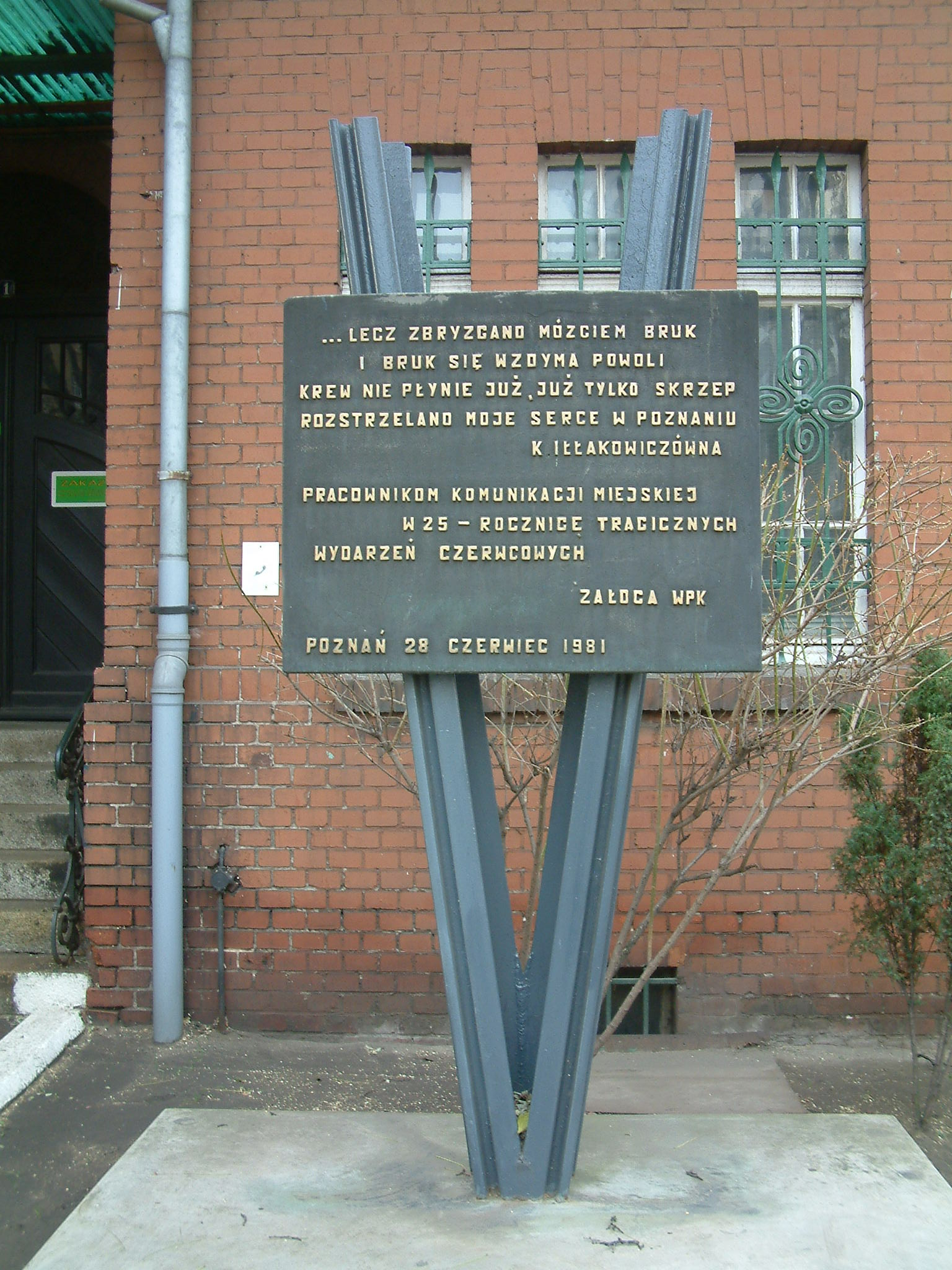 Memorial of victimes of June 1956 in front of Gajowa Depot, Poznań